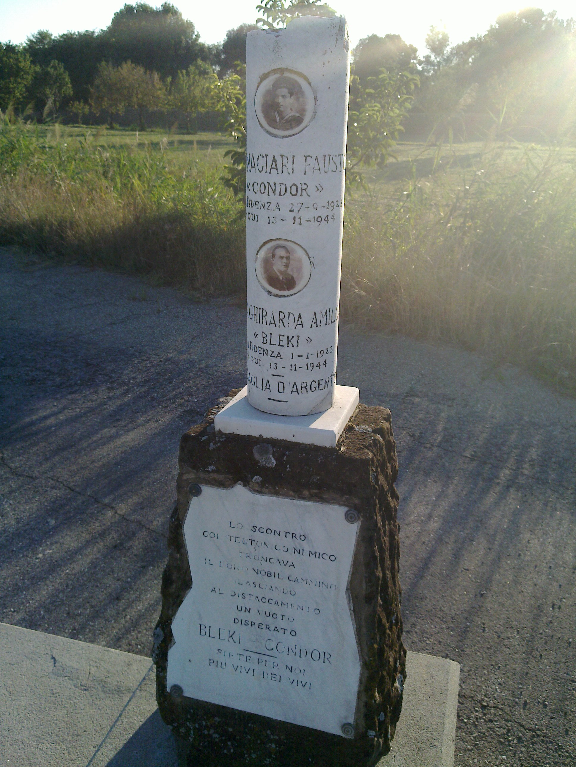 Memorial stone in memory of the partisans Amilcare Dallagherarda and Fausto Fornaciari place on the road 12 for Soragna, Chiusa Ferranda of Fidenza, Parma, Italy.